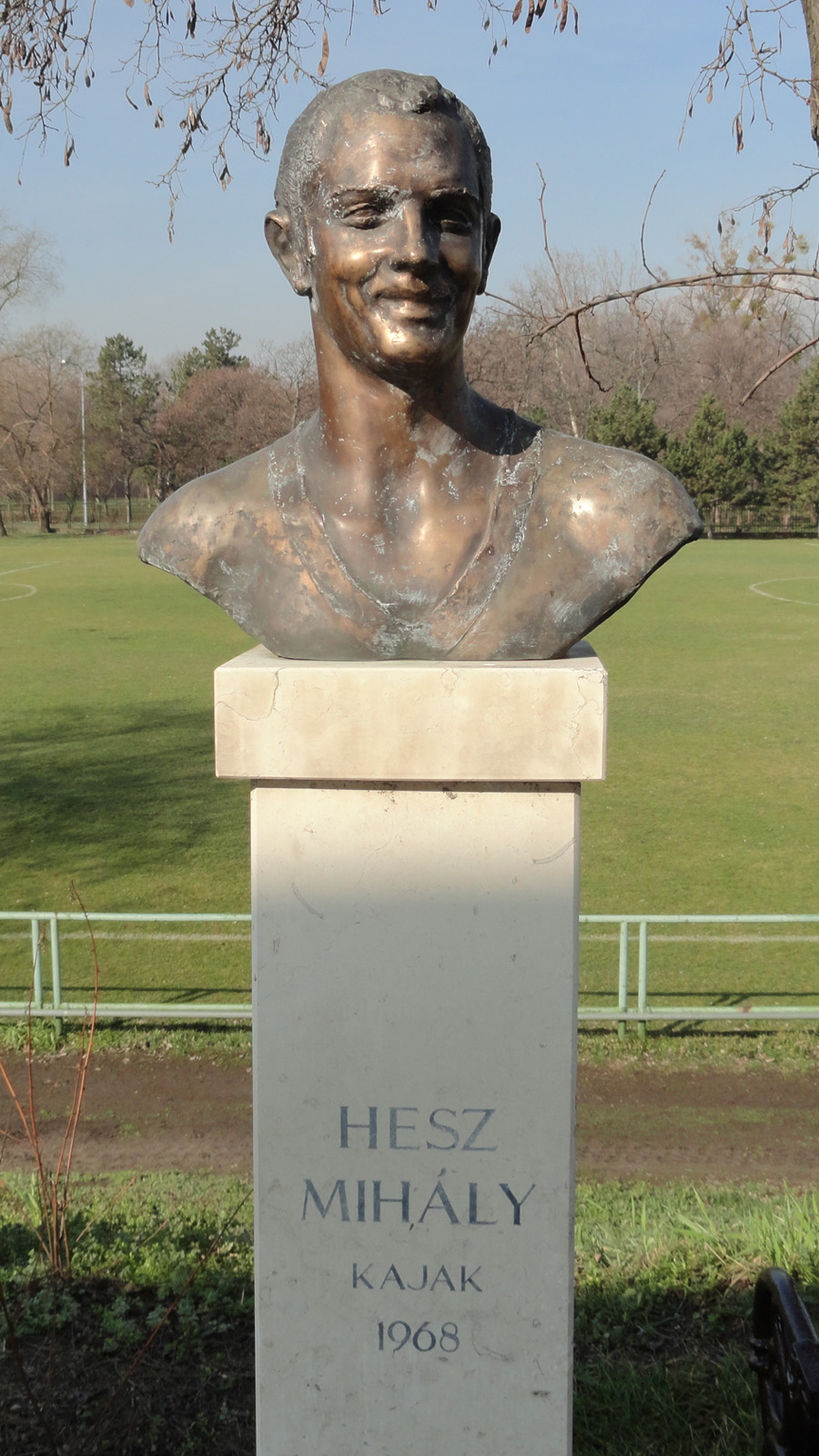 Mihály Hesz, hungarian sprint canoer. 1968 Summer Olympics - Gold Medal Winner